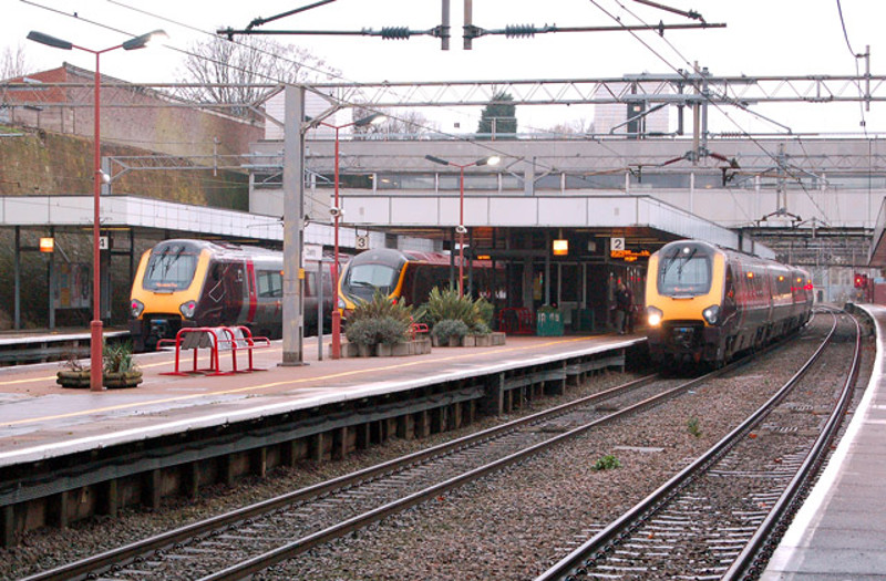 Three trains stopped at Coventry railway station, near to Coventry, Great Britain. Looking in the down (westbound) direction from platform 1 at Coventry railway station. At the right, a 'Voyager' diesel set operated by CrossCountry awaits departure from platform 2 on a service to Bournemouth; in the centre a Class 390 'Pendolino' set stands at platform 3 on a Virgin trains 'EBW' (Euston-Birmingham-Wolverhampton) service; and on the right (Left - platform 4) another CrossCountry 'Voyager' is ready to depart for Manchester Piccafilly.